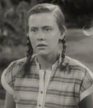 Helen Westcott in Three Came Home - cropped screenshot